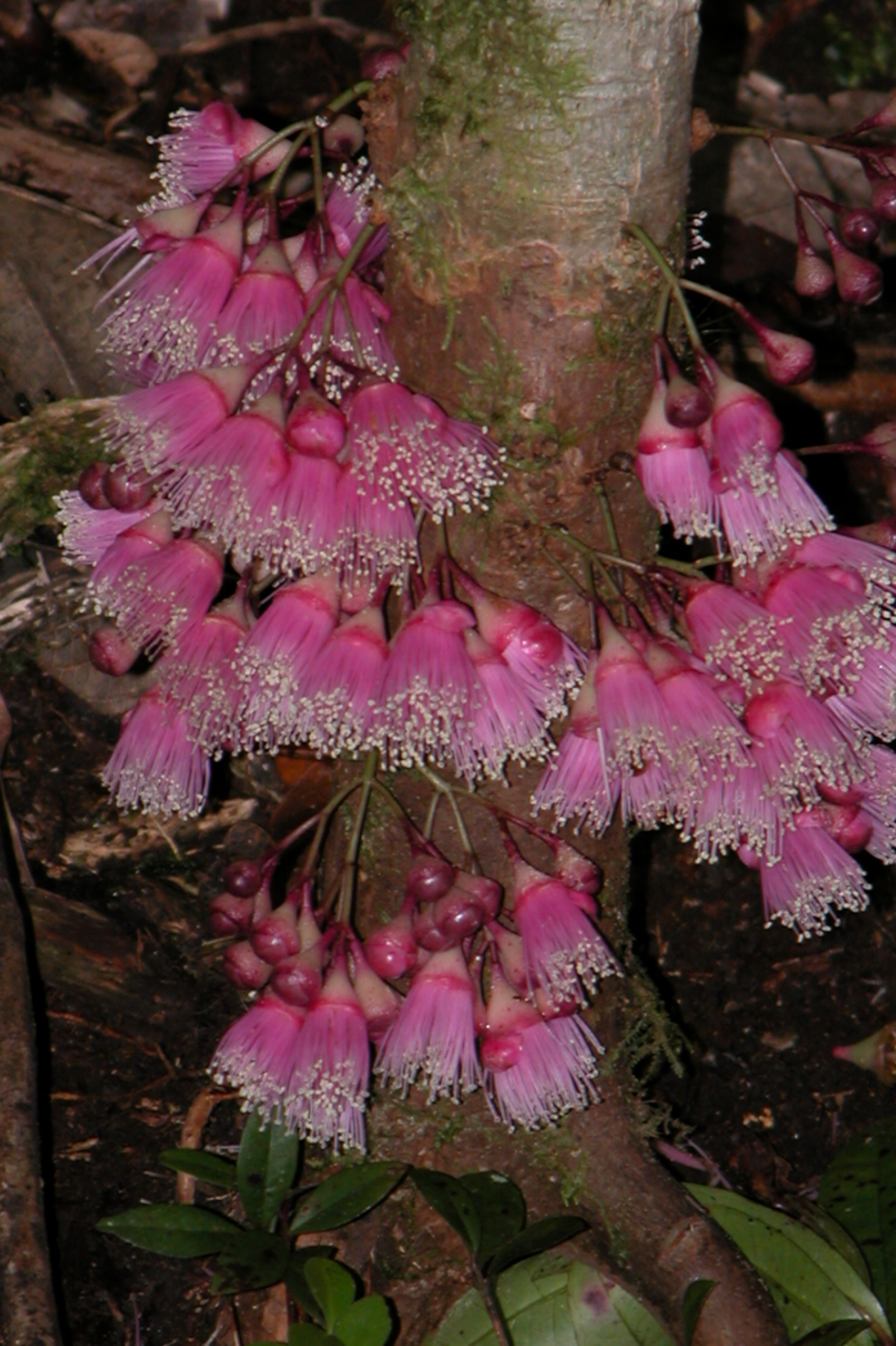 Fleurs du bois pomme : Syzygium cordemoyi (espèce cauliflore)